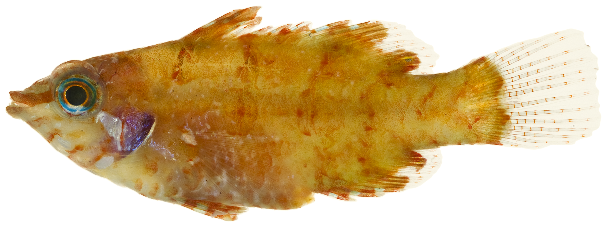 Doratonotus megalepis Günther, 1862—dawrf wrasse, 22.1 mm SL, juvenile color phase. Photo by JT Williams.